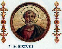 Portrait of Pope Sixtus I in the Basilica of Saint Paul Outside the Walls, Rome